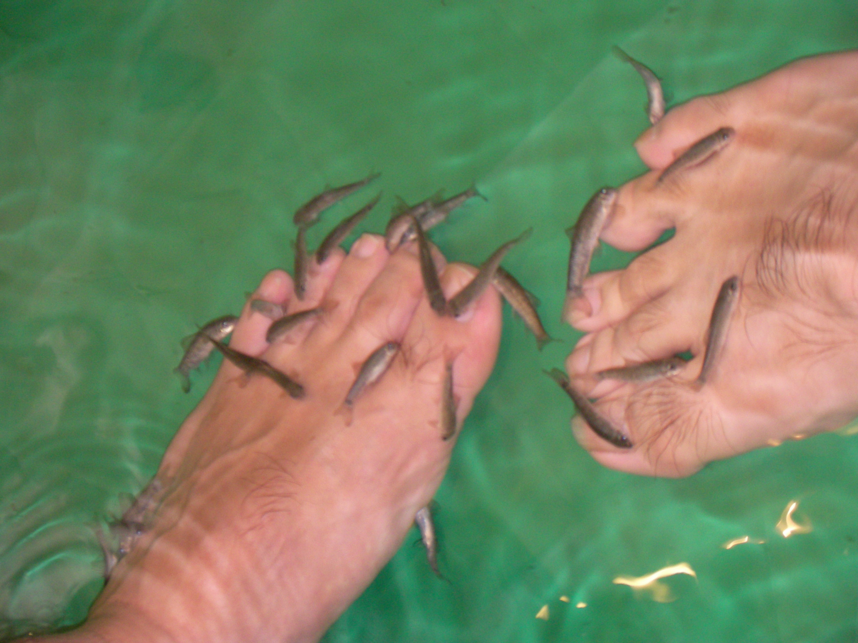 Doctor fish nibbling on the diseased skin of patients.